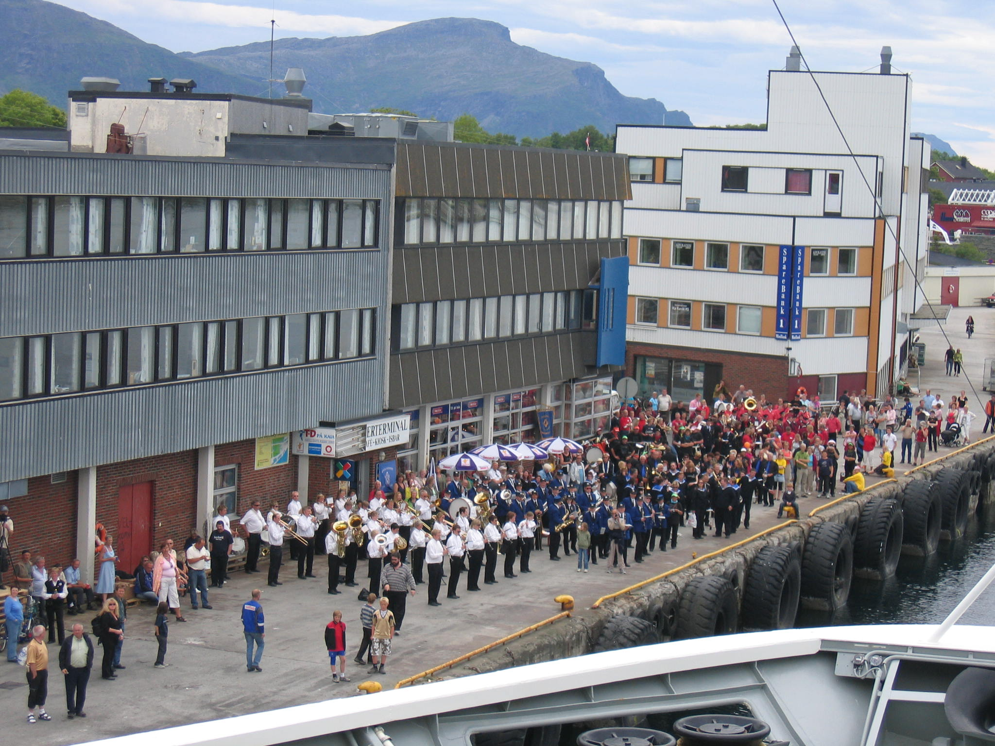 The brass band festival "Torghattfestivalen" greets the Hurtigruta passengers arriving at Brønnøysund.